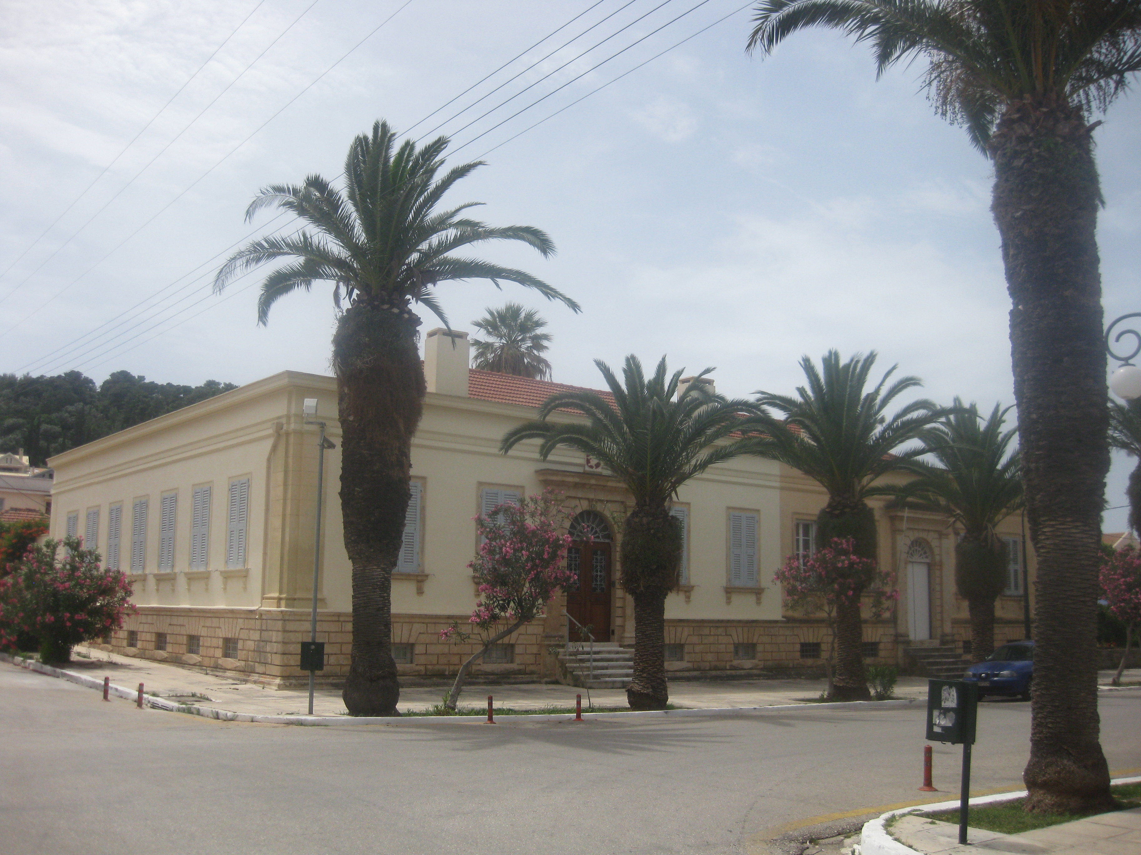 venetian houses in argostoli